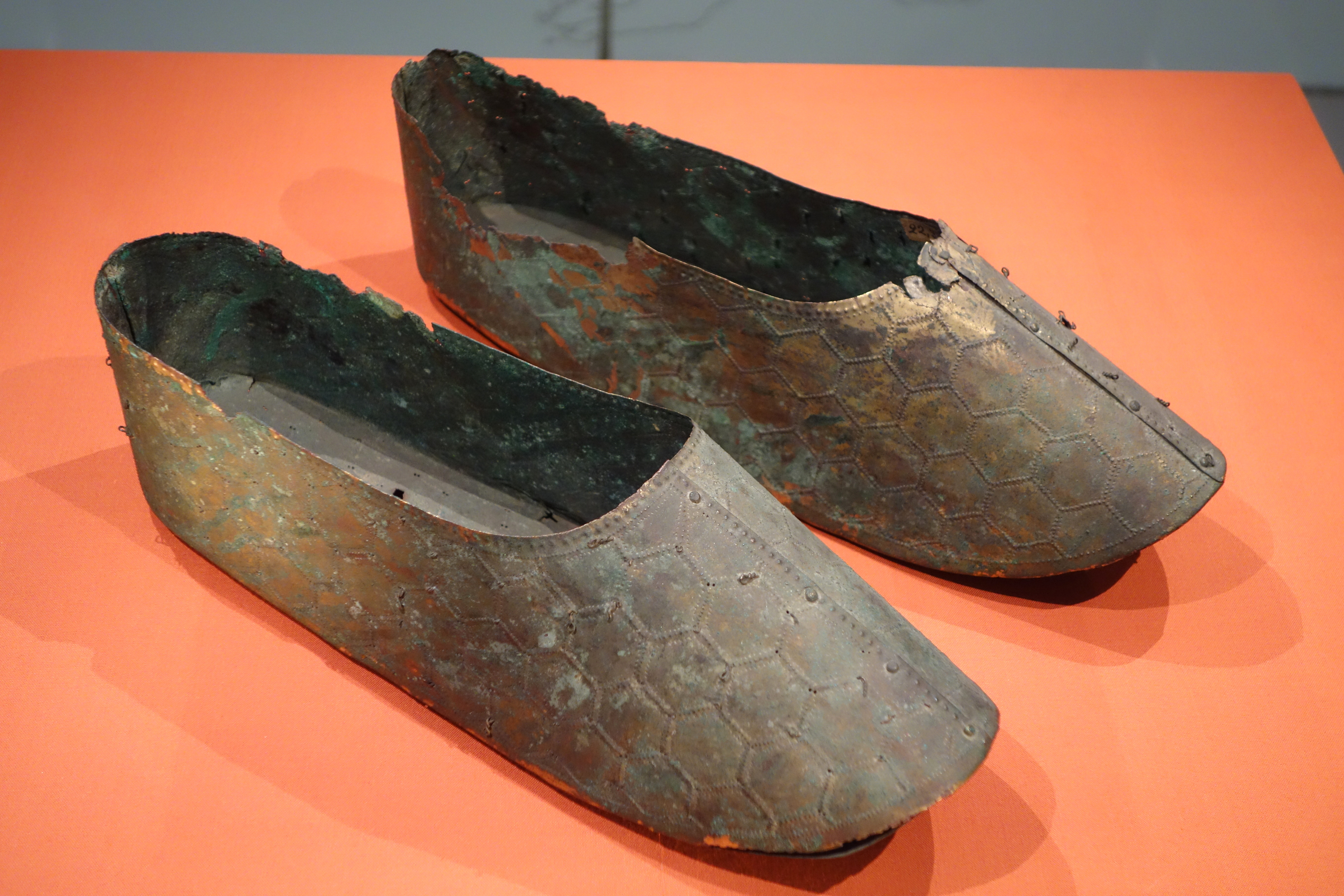 Exhibit in the Tokyo National Museum, Tokyo, Japan. This artwork is old enough so that it is in the public domain.